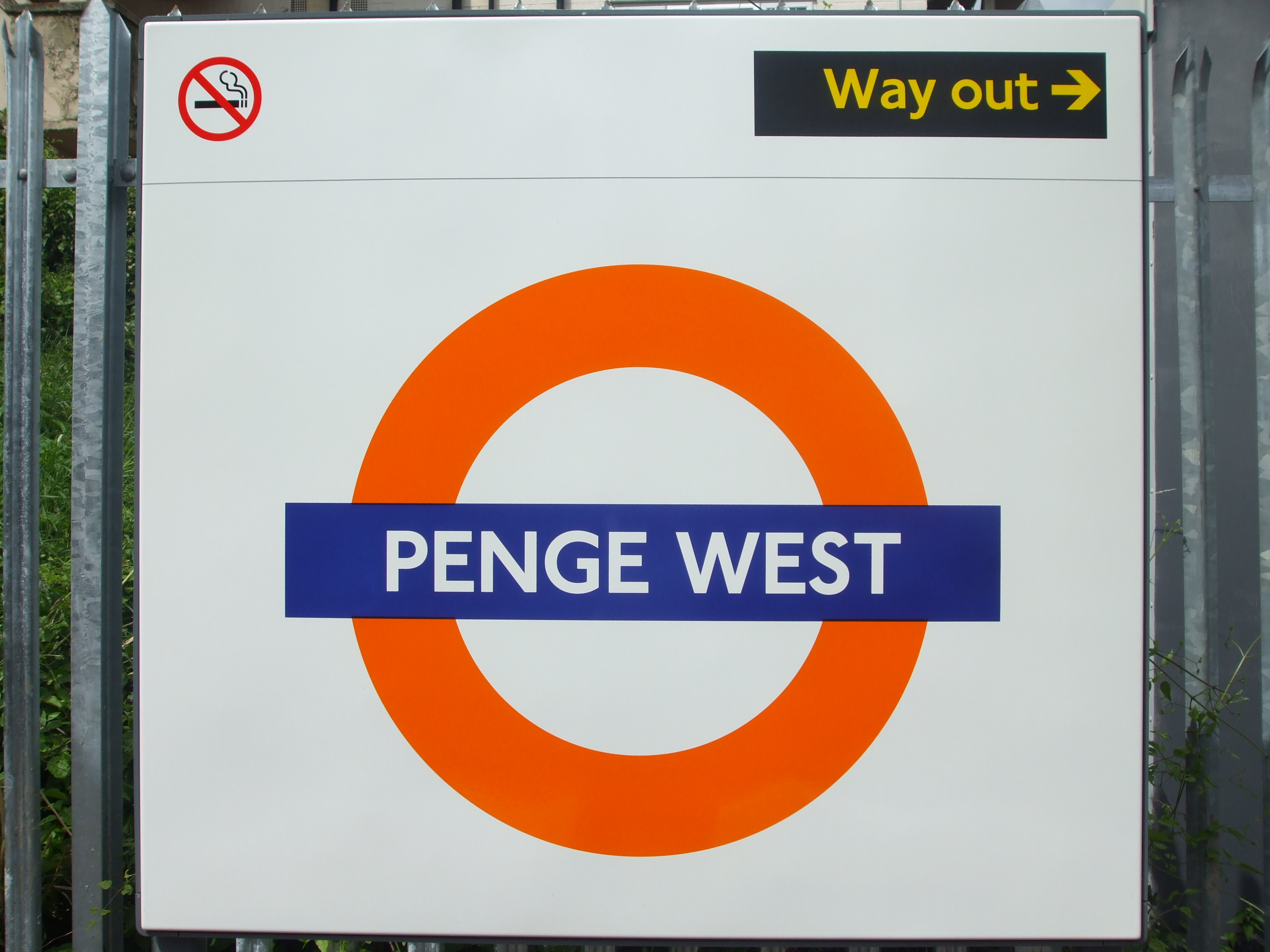 Penge West station platform roundel, in London Overground orange